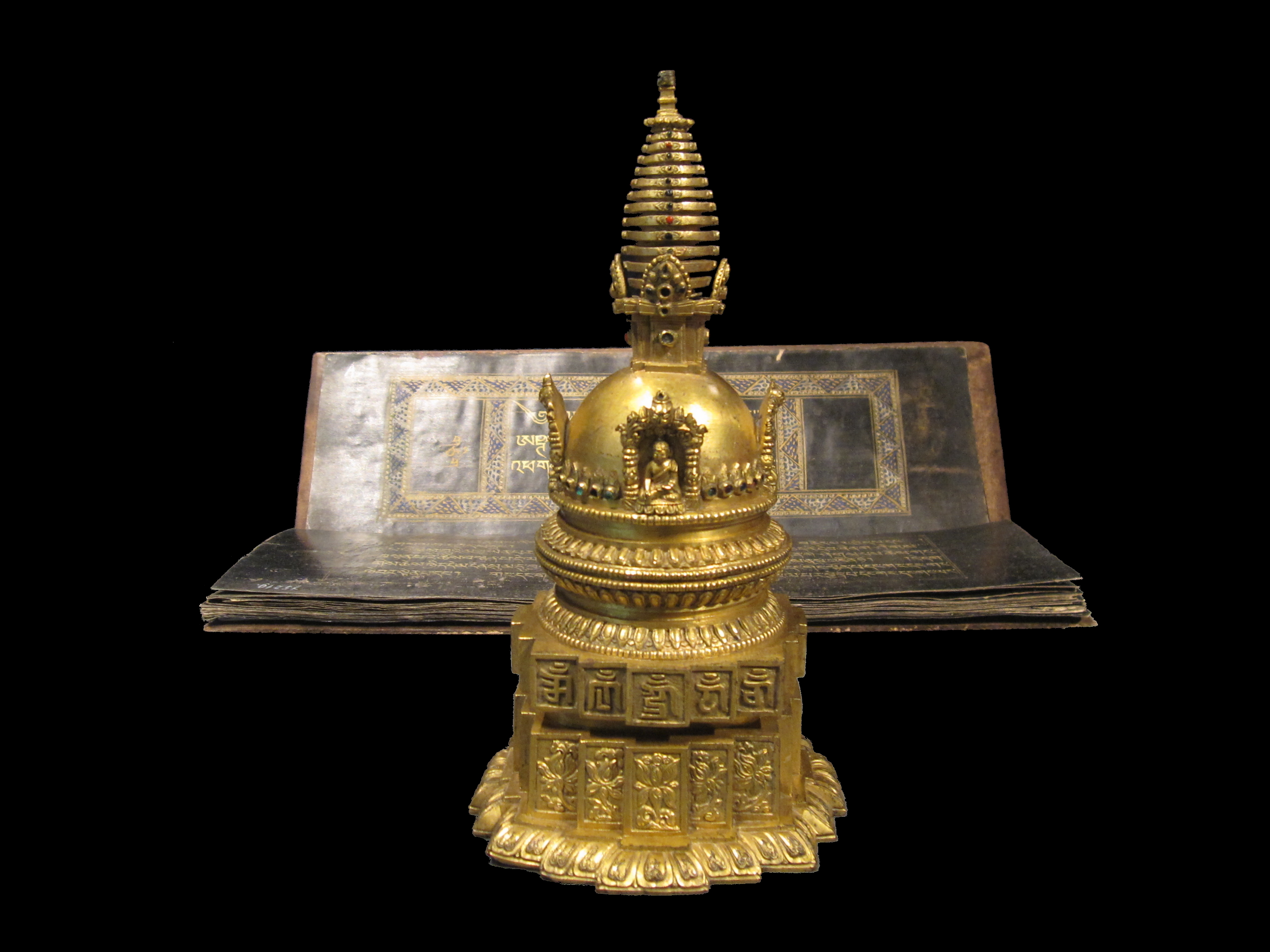 Prajnaparamita. Mongolia, 18th century CE. Stupa, Mongolia, 18th century CE, gilded bronze.